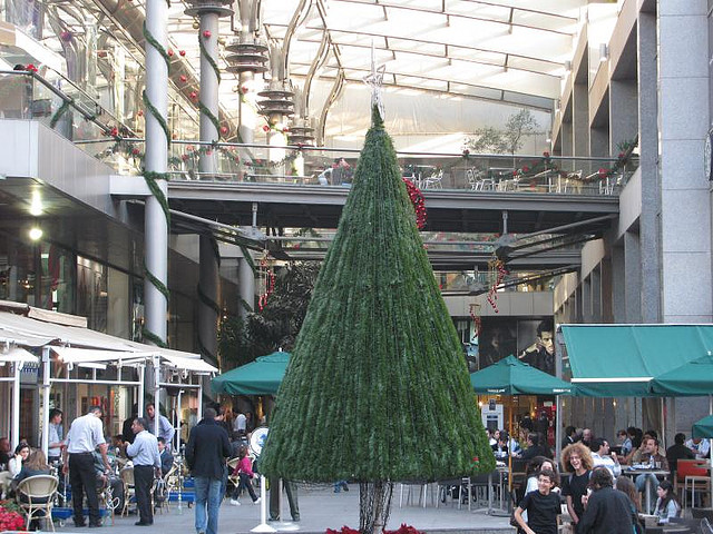 christmas tree at shopping mall